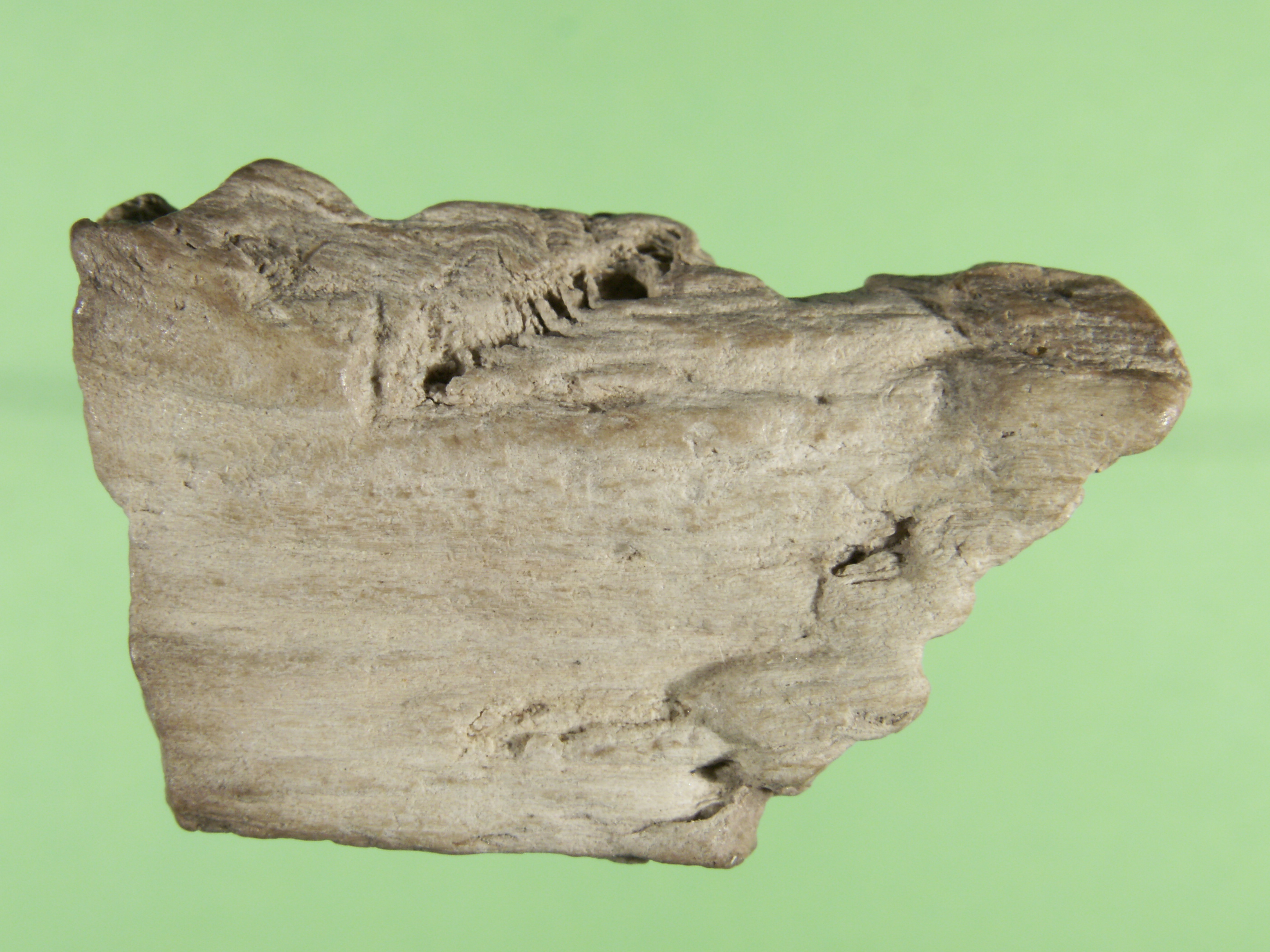 Amber from Bitterfeld, beckerite